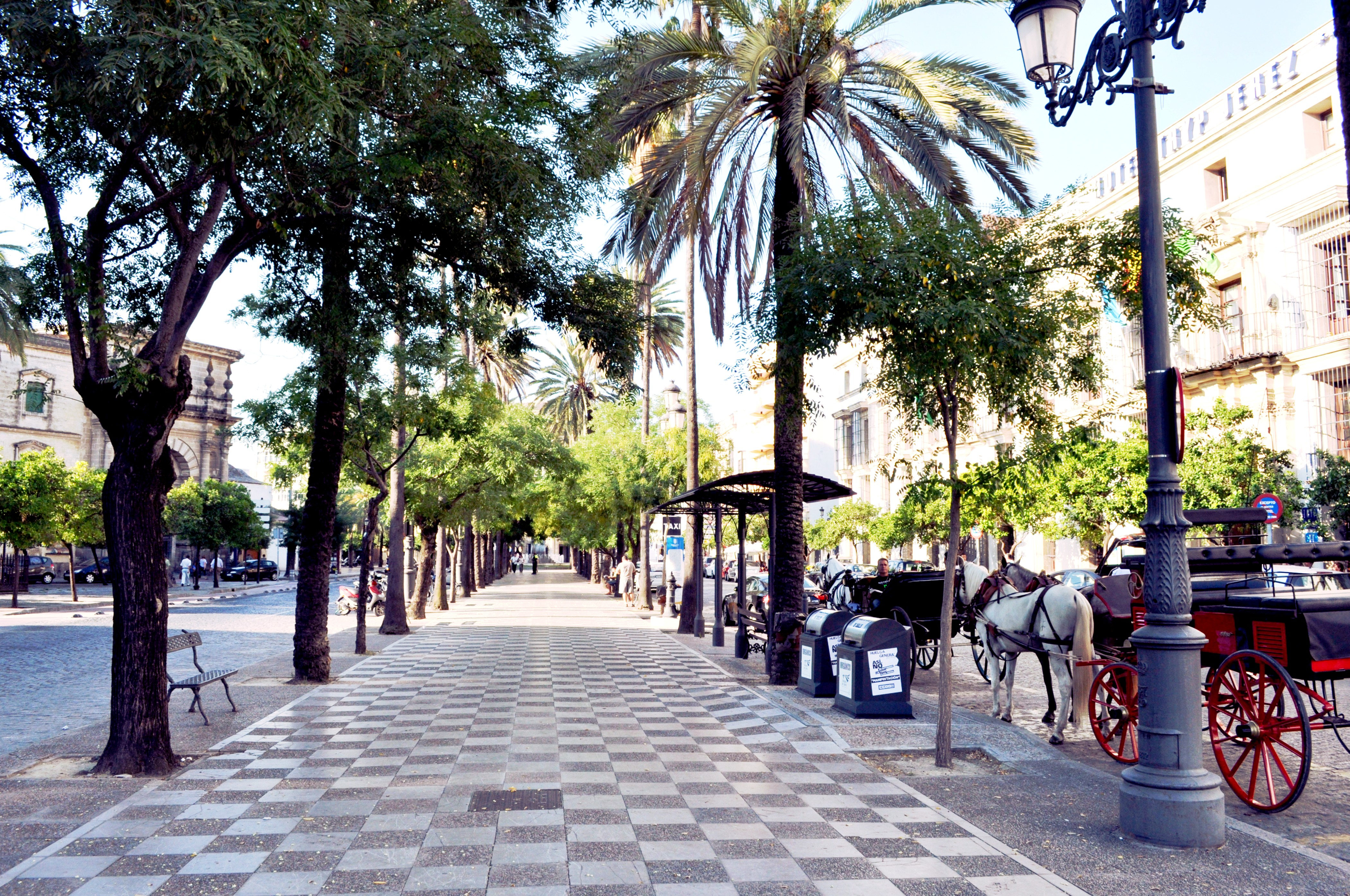 Cristina Square, Jerez de la Frontera